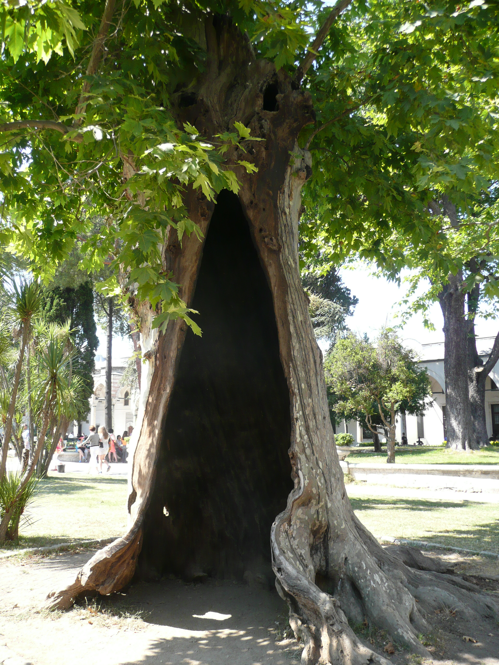 One of the hollow trees in the Topkapi Palace in Istanbul.